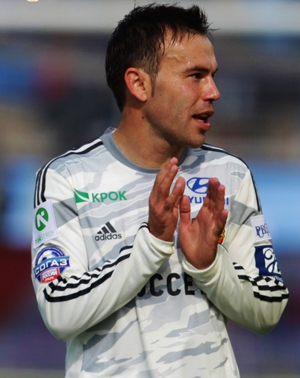 Bibras Natkho